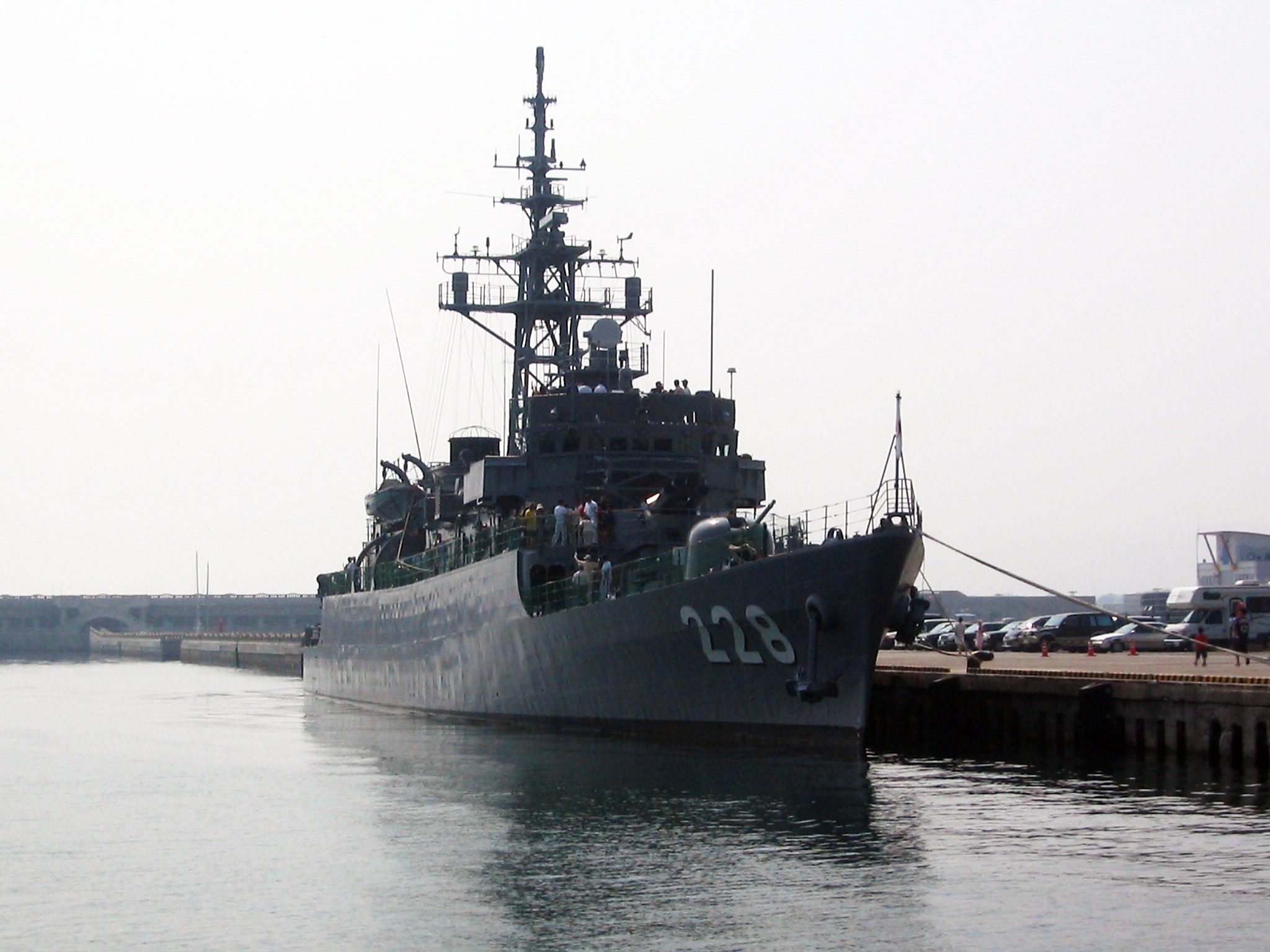 Yubari class destroyer escort Yubetsu (DDE-228)